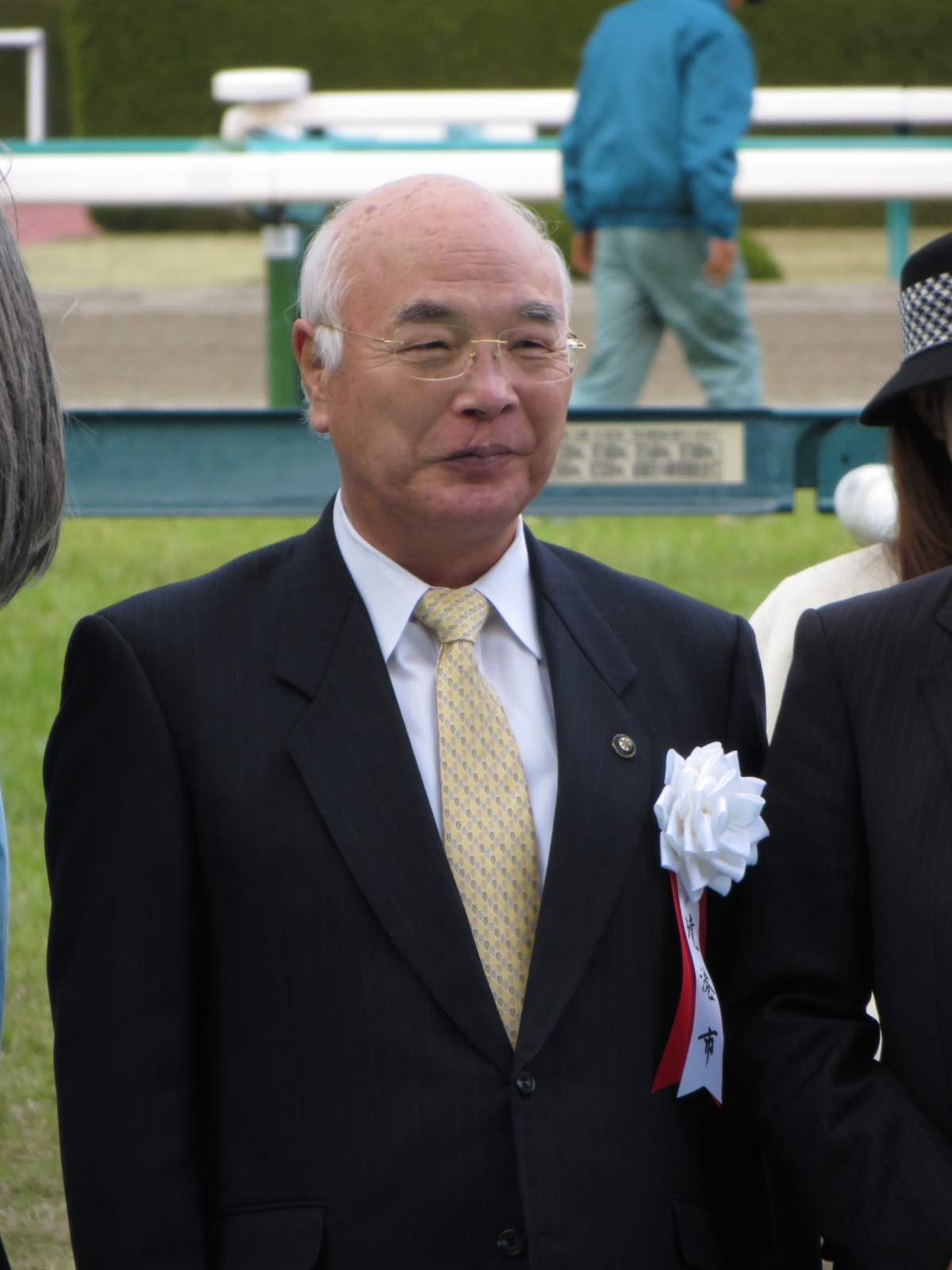 Katsuji Nakamura (Mayor of Sakaiminato, Tottori).